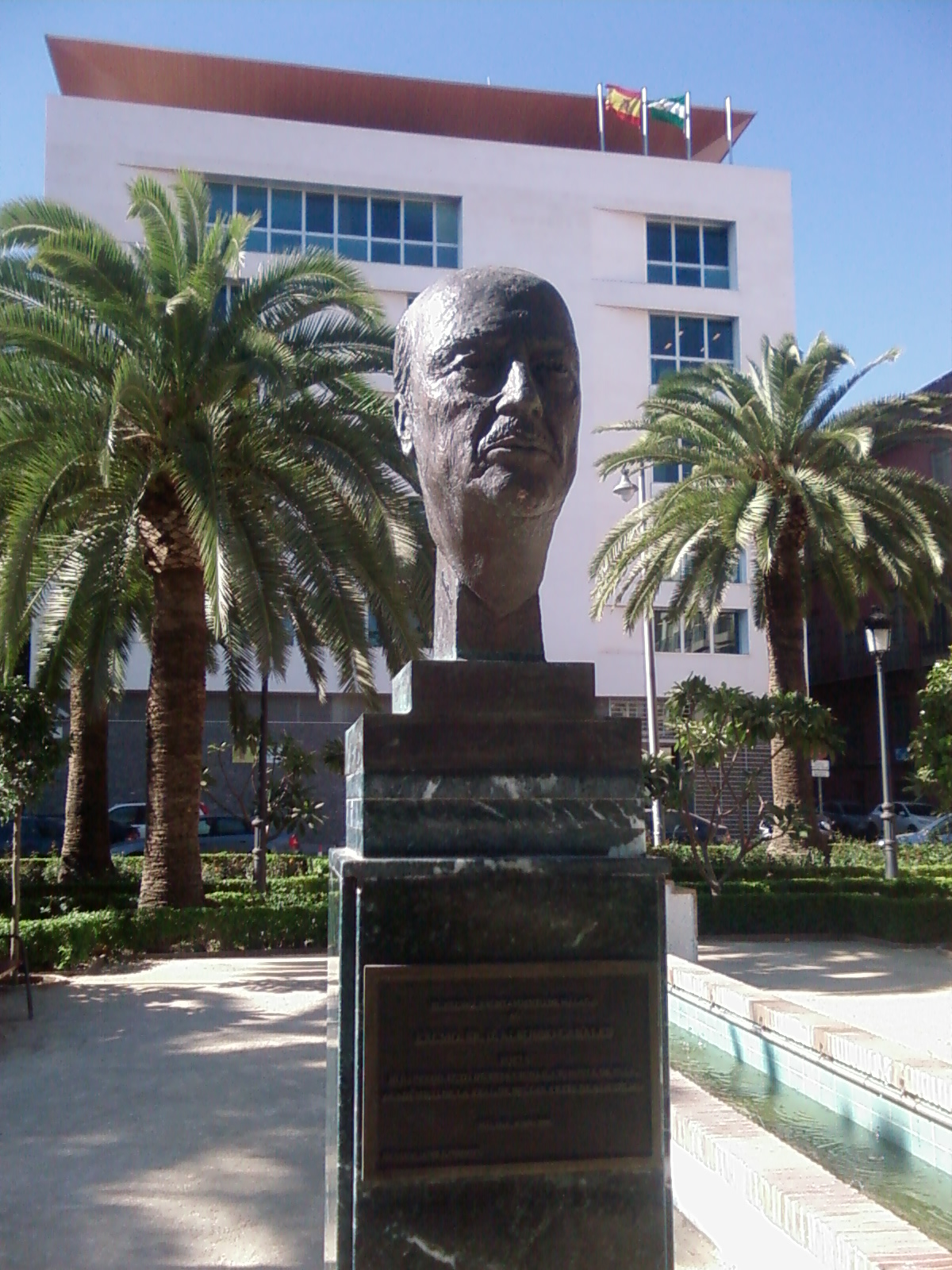 Alfonso Canales bust by Jaime Fernández Pimentel